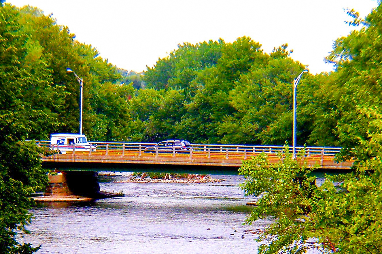 Main Street Bridge (Temple Street) over the Passaic River, Paterson, New Jersey